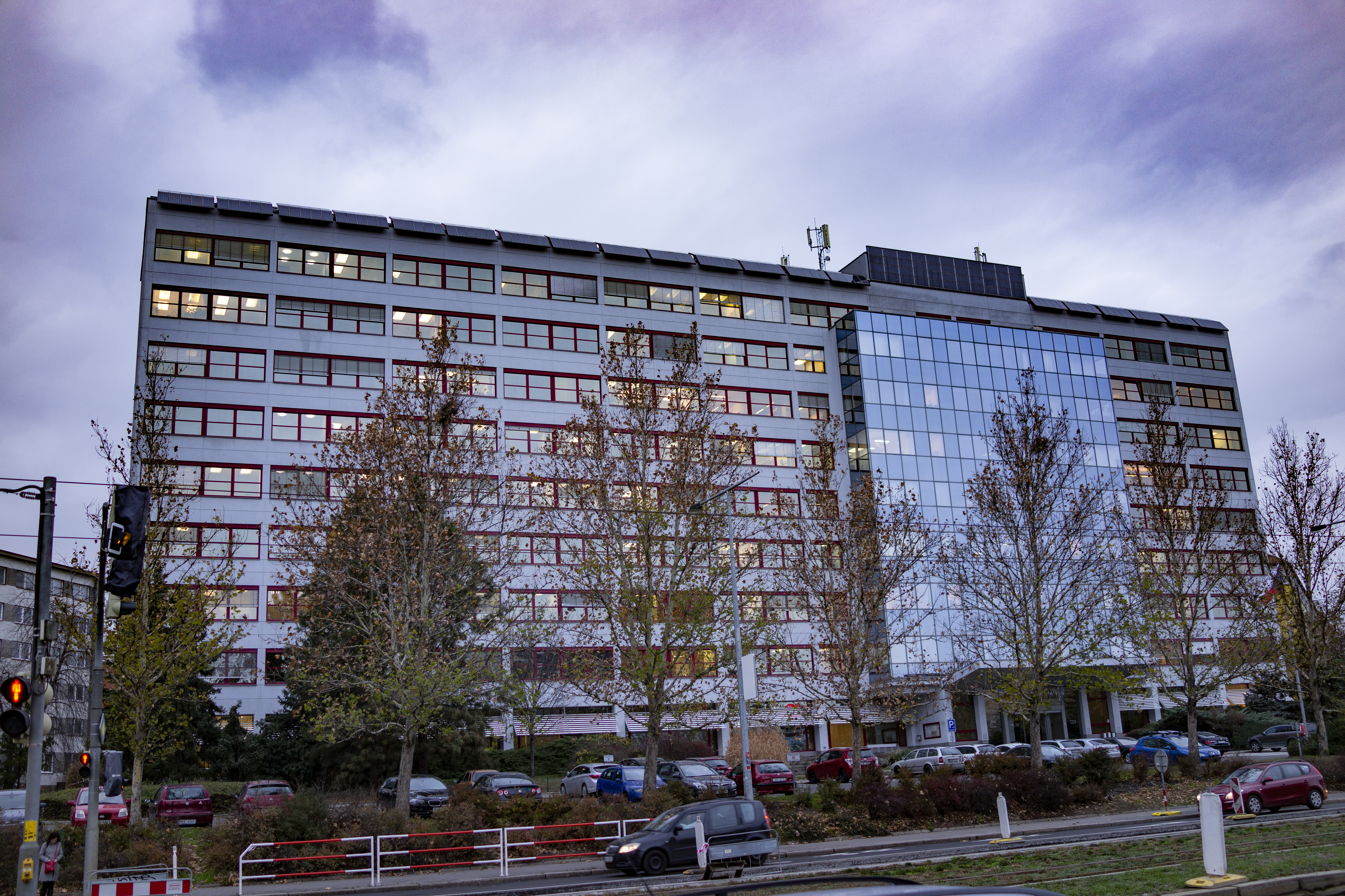 Headquarters of Czech Environmental Information Agency on Vrsovicka street, Prague, Czech Republic